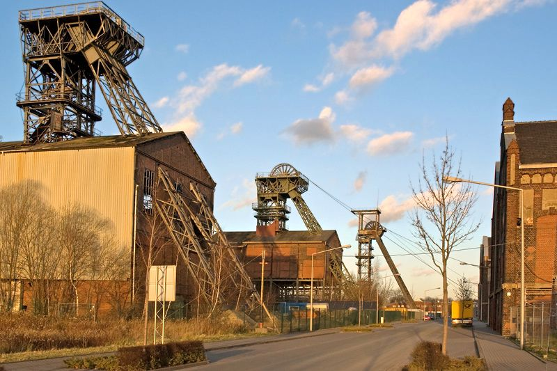 Germany Hamm Winding Towers Radbod Mine